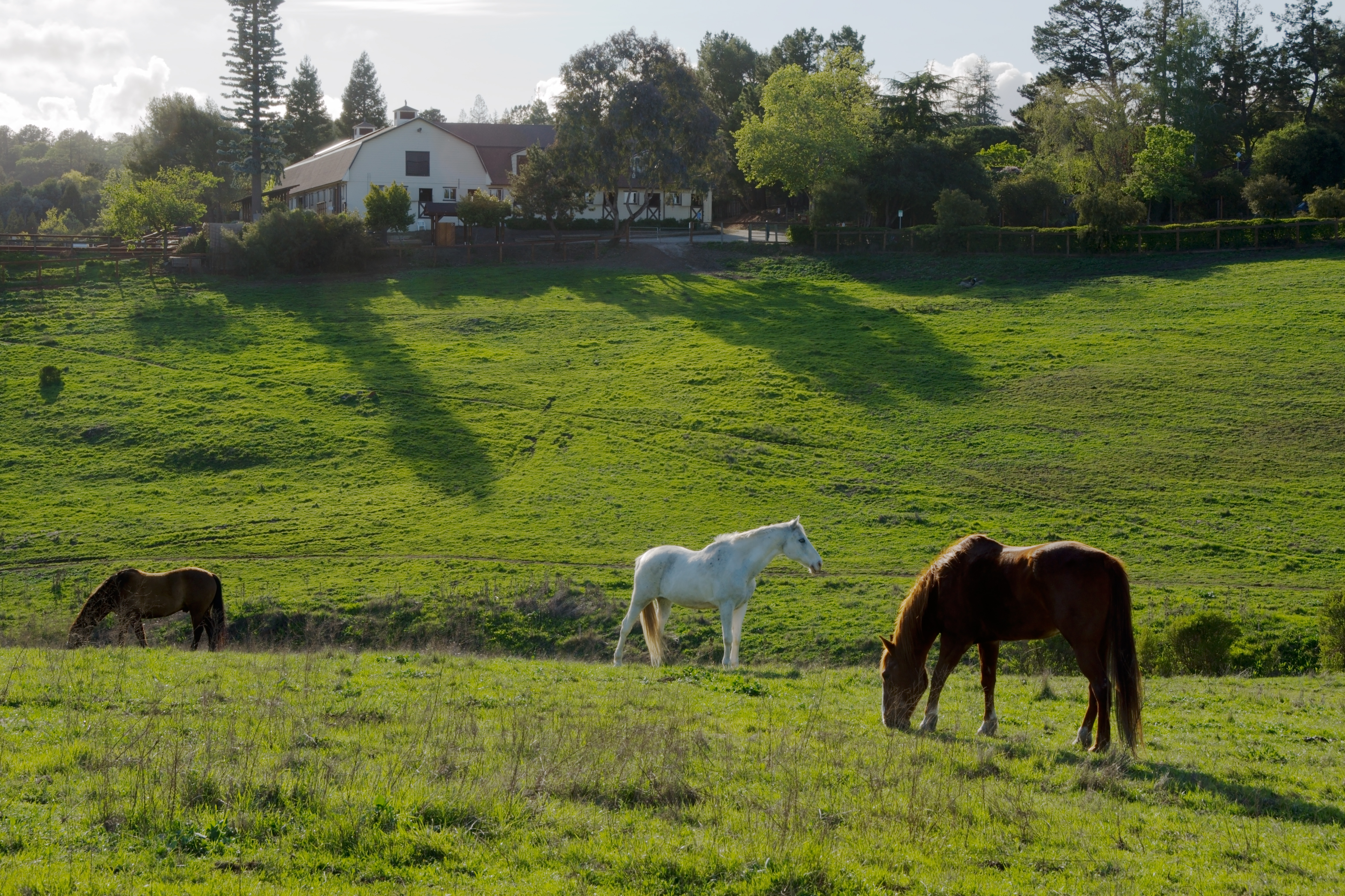 View of Westwind Community Barn from Byrne Preserve, Los Altos Hills, California.